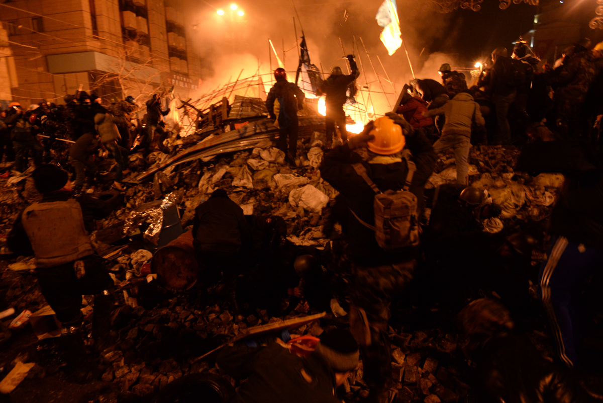 Clashes in Kyiv, Ukraine. Events of February 18, 2014-4